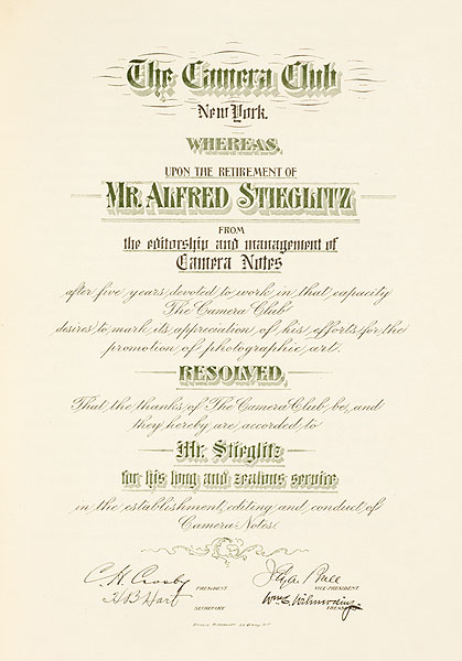 Retirement Stieglitz Camera Notes